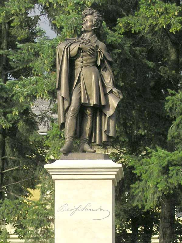 A statue of the Hungarian poet Petőfi Sándor in Rimavská Sobota, Slovakia.